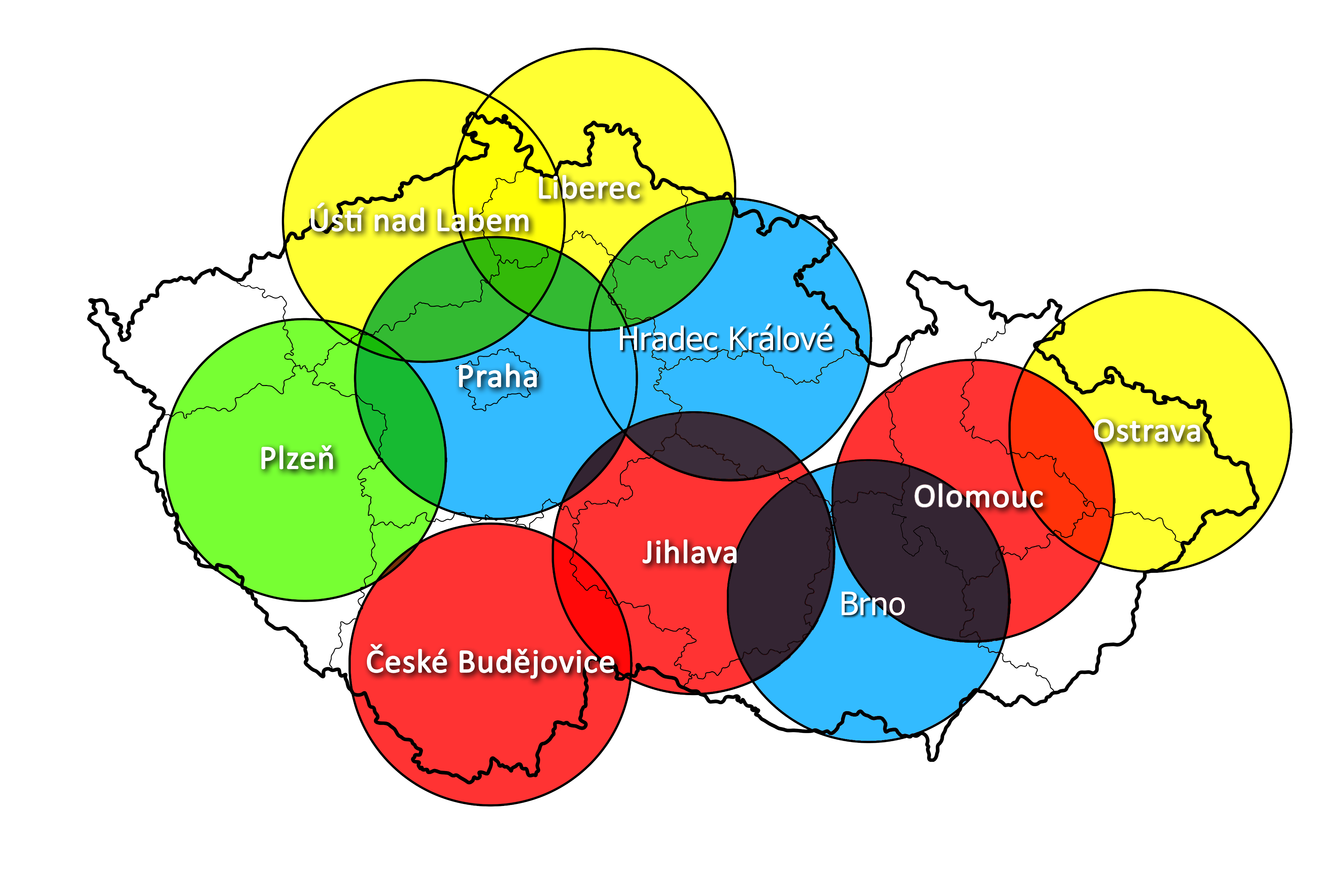 Map of the HEMS bases in the Czech Republic before 2009